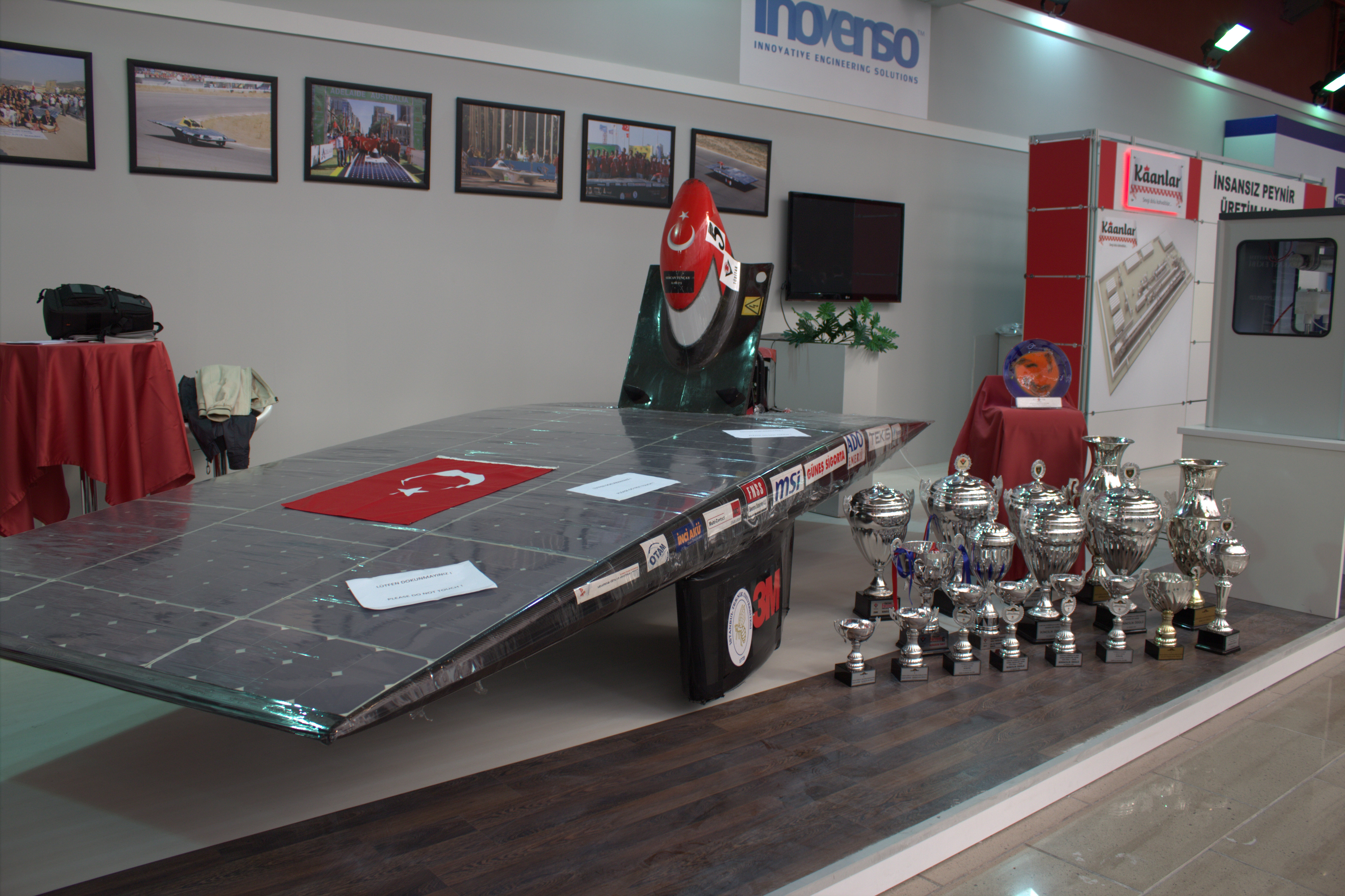 müsiad fuar